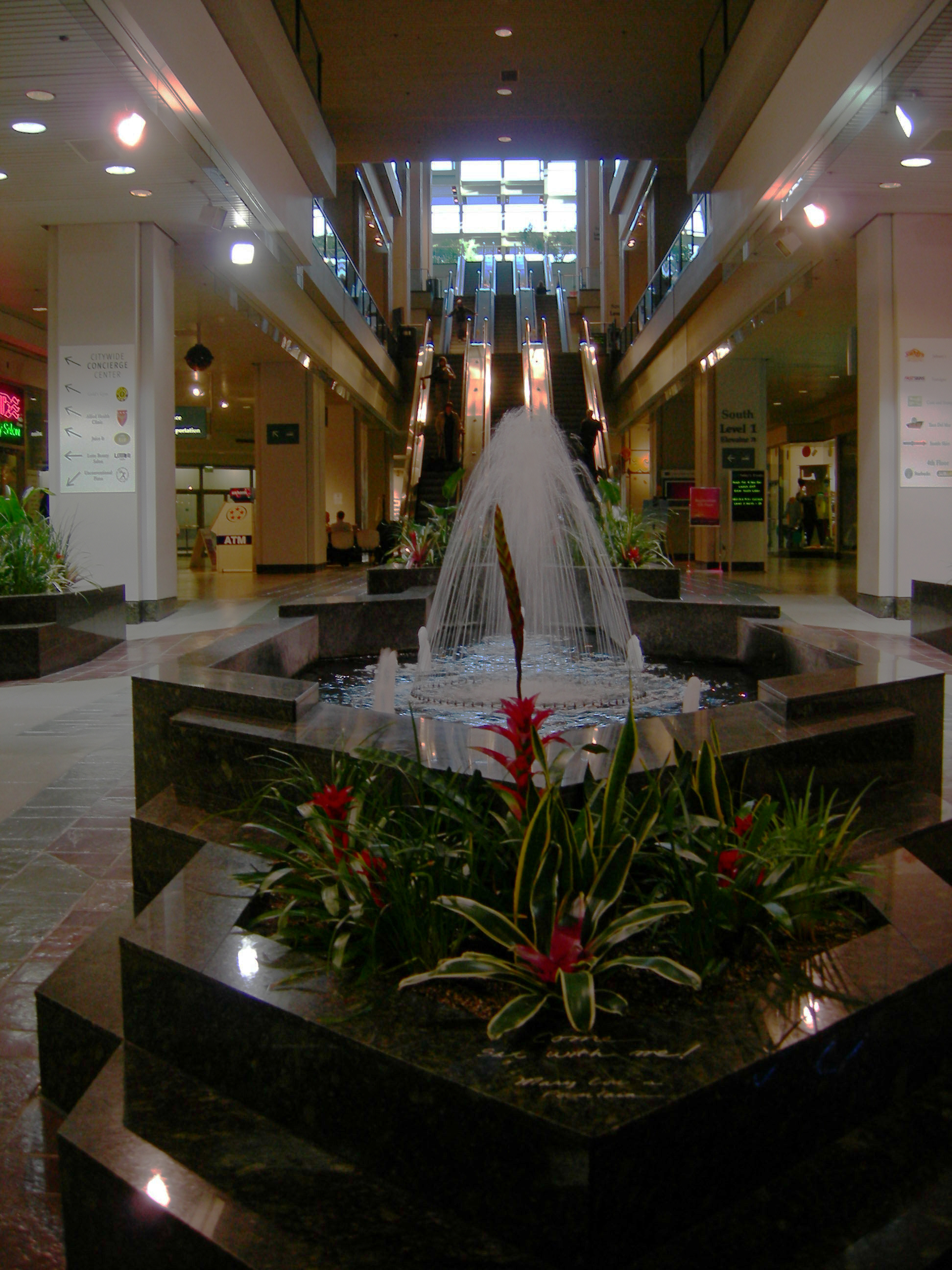 Washington State Convention Center, Seattle, Washington. Main escalator.